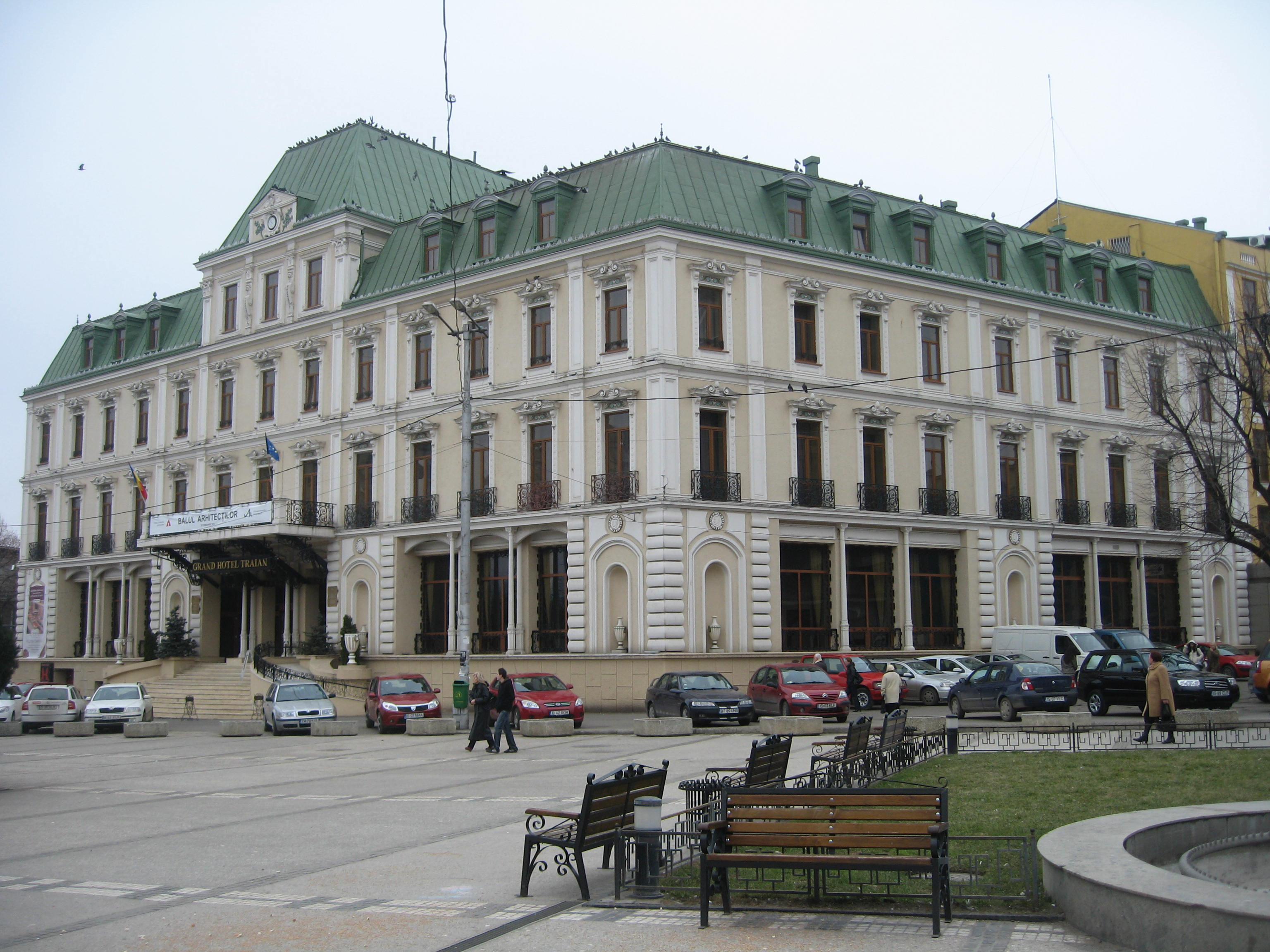 Grand Hotel Traian